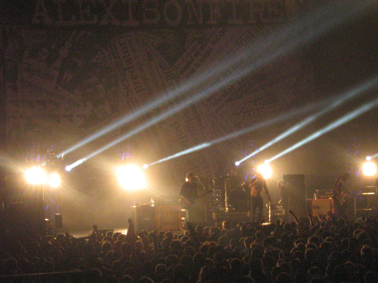 Alexisonfire Live In Vancouver For The Last Time On Their Farewell Tour.